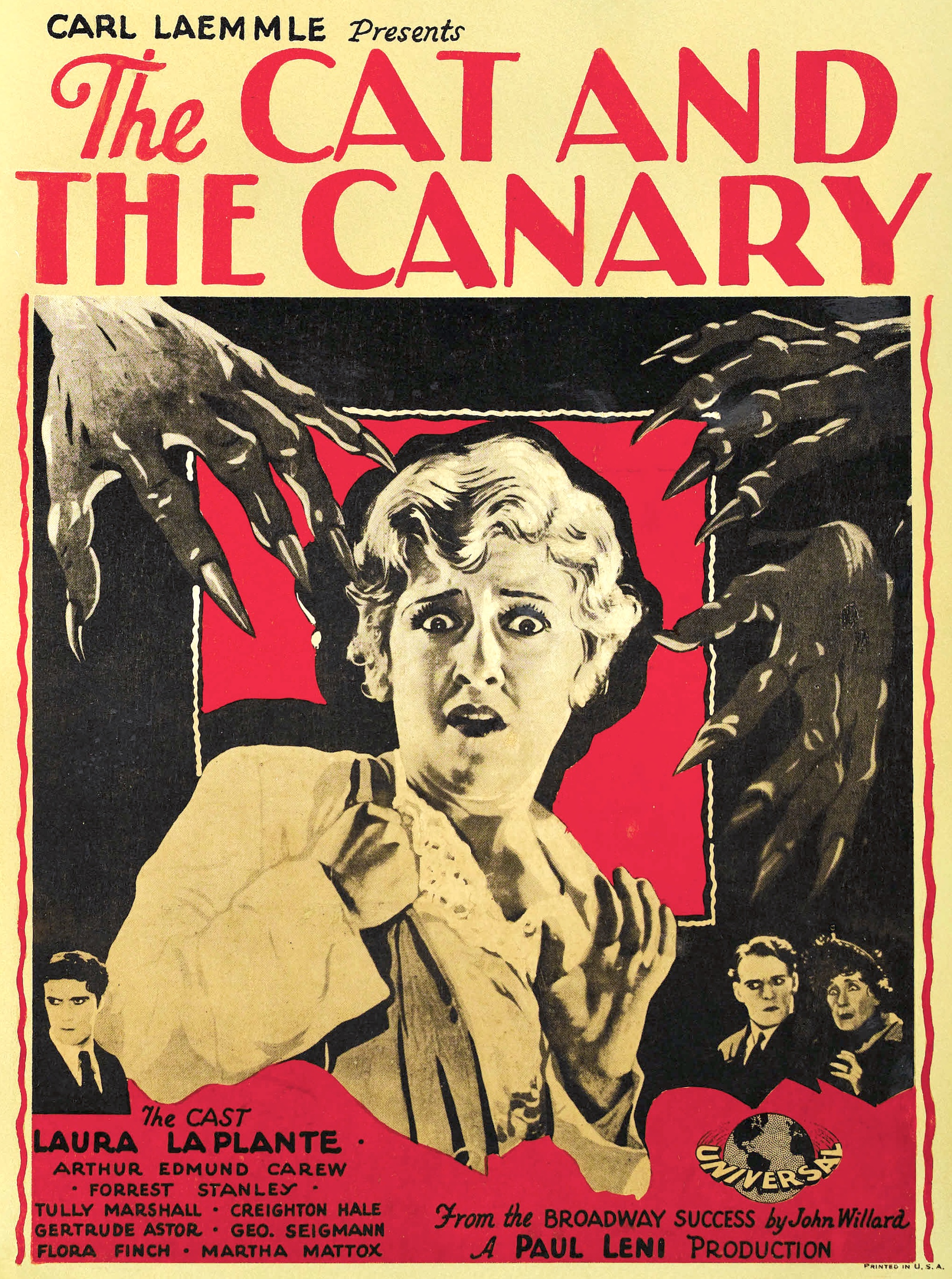 A window card for the 1927 film The Cat and the Canary.